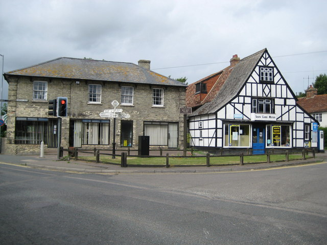 Melbourn crossroads The crossroads marks the junction of the High Street, Mortlock Street, Station Road and Cambridge Road. Prior to the building of the bypass the A10 road used to follow the High Street and Cambridge Road. On view is a 2000 Millennium direction finger post showing London 40 miles, Royston 2½; Newmarket 24, Barley 4¾; Cambridge 10, Foxton 2¾; and Whaddon 1¾, Meldreth & Railway Station ¾. There is also a Best Kept Village sign from 1991. On the very far left there is a black sign attached to the side of the brick building showing the way to the Baptist Church, and on the very far right an ancient petrol pump next to the half-timbered garage can be seen.